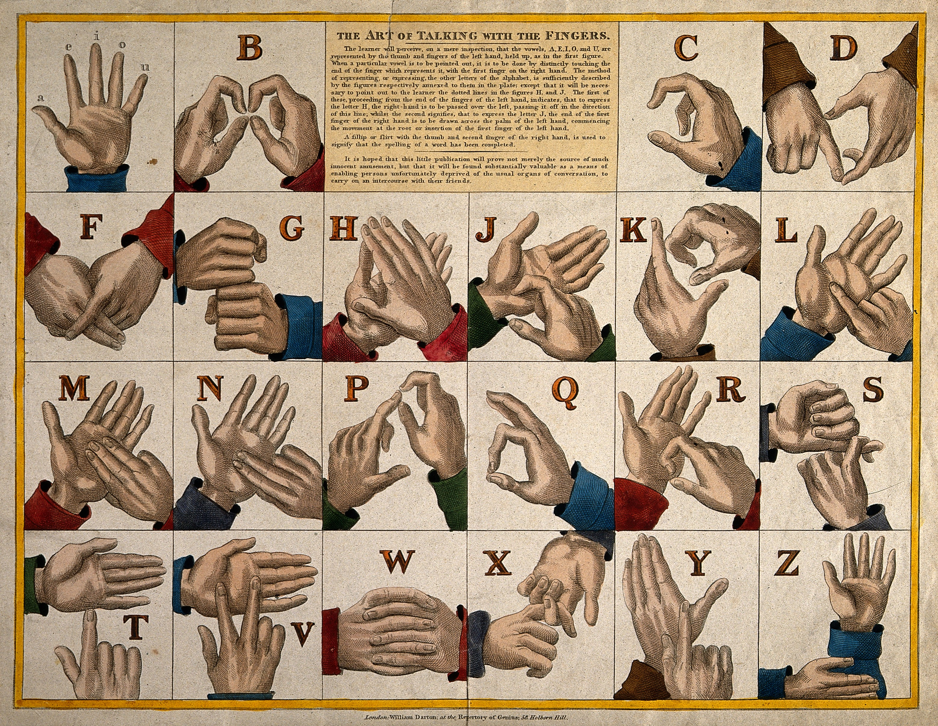 Hands showing the sign language alphabet. Coloured etching. Iconographic Collections Keywords: ALPHABET; Sign Language